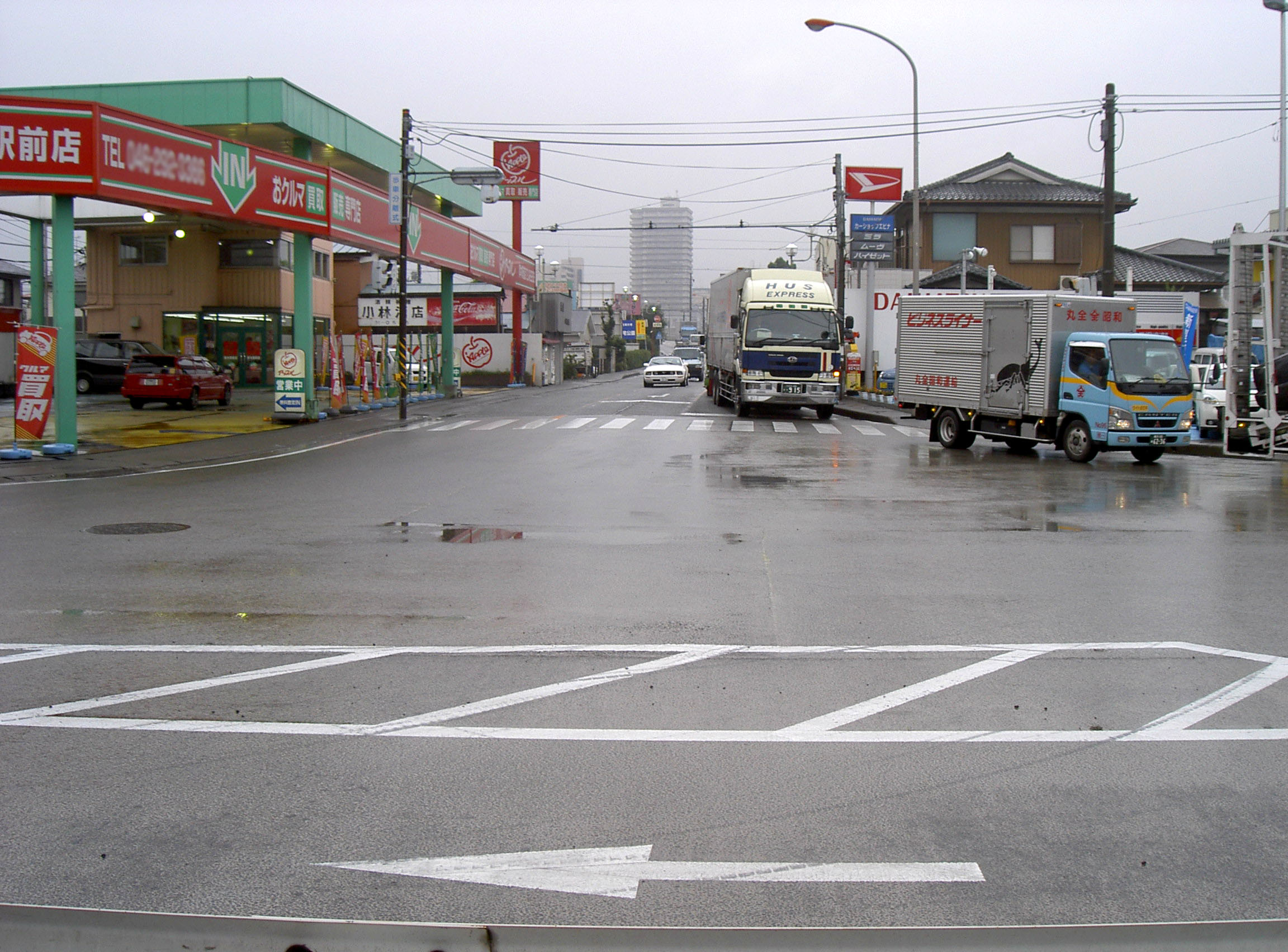 The sign plates of Kanagawa prefectural road route 40, 43, 46 and 51 ja: 神奈川県道40号横浜厚木線、神奈川県道43号藤沢厚木線、神奈川県道46号相模原茅ヶ崎線、神奈川県道51号町田厚木線の交差点